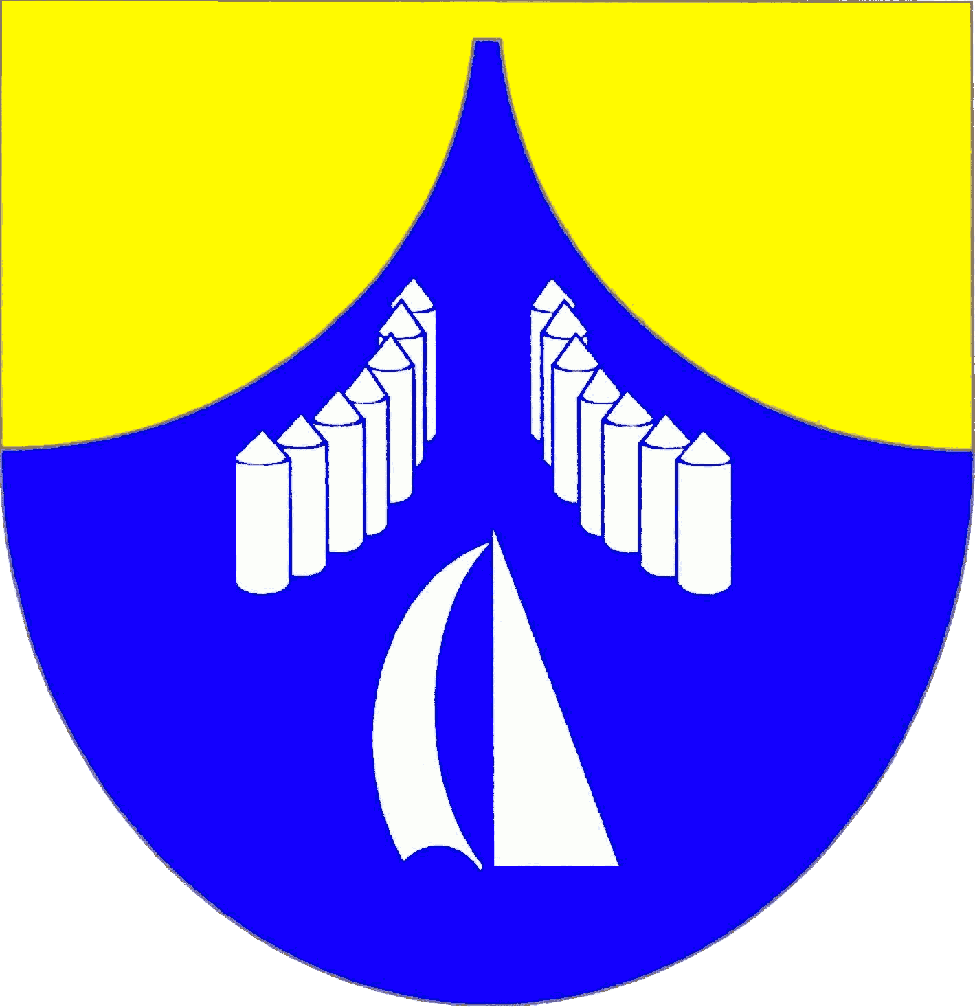 Coat of arms of the municipality Borgwedel in Schleswig-Holstein, Germany.